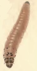 Stainton’s Natural History of the Tineina (1855–1873): Coleophora otidipennella